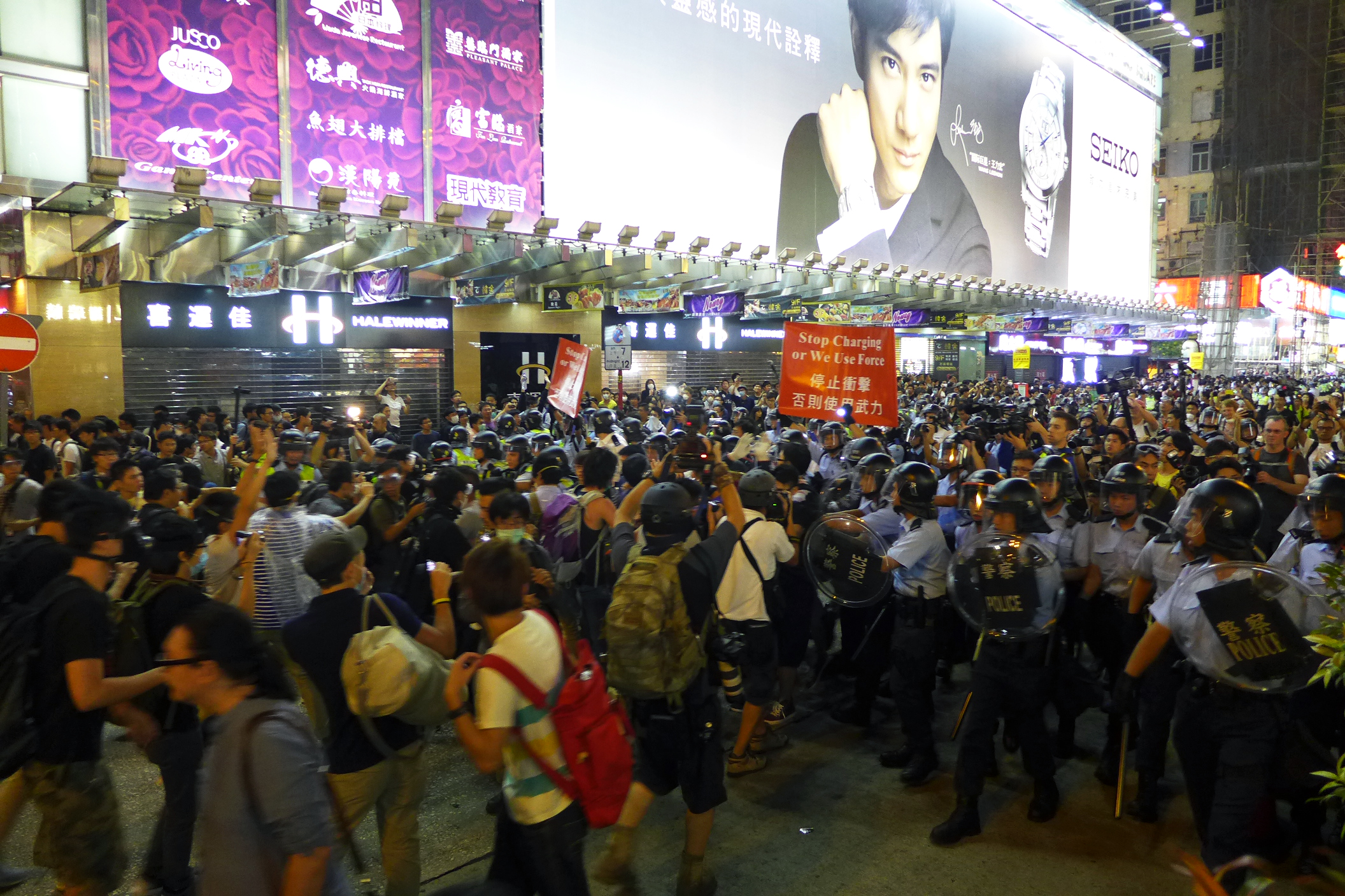 Nathan Road Police force protesters to South